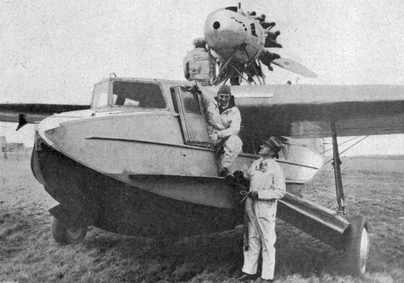 Fokker F.11 photo from L'Aéronautique August,1929